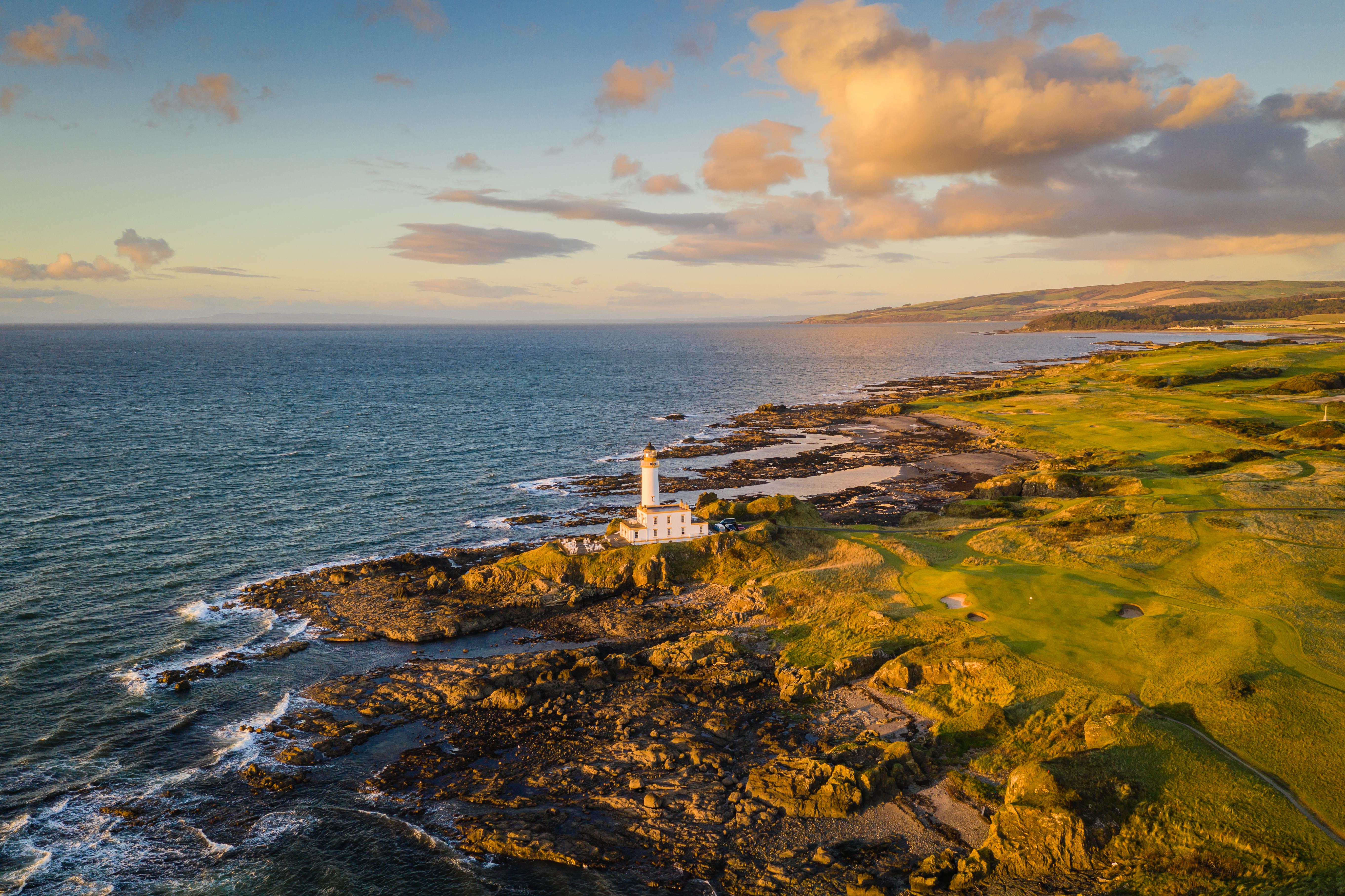 Turnberry Lighthouse at sunset surrounded by the golf course. You can also just see the war memorial on the right hand side. The sky didn't promise too much and the wind was pretty strong but the DJI Mavic 2 Pro just about coped. Impressed with the detail you get from the Mavic 2 Pro compared to the old Phantom and the new Air. #turnberry #lighthouse #ayr #coast #sunset #drone #dji #djimavic2 #djimavic2pro #droneoftheday #scotland_by_drone #thisisscotland #lovesscotland #visitscotland #scotspirit #explorescotland